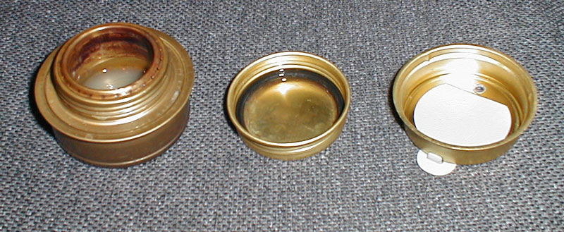 Trangia Burner - photo taken by Martin Conway and released under the GFDL